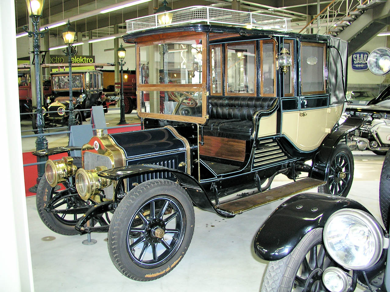 16 HP model powered by a 2323 cc 4-cylinder monobloc engine with sleeve-valves, made in Belgium by Minerva Motors SA; front left-side view